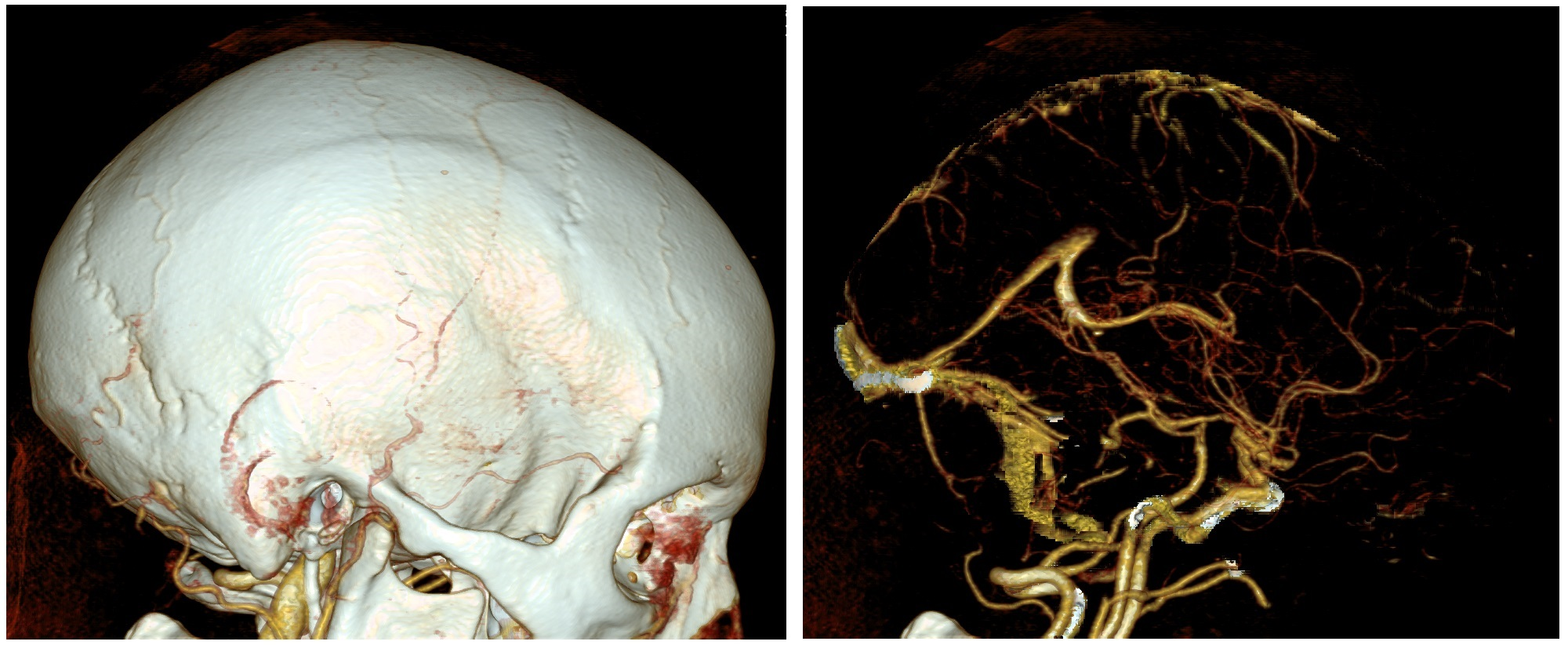 Volume rendered venous-phase CT angiography of the head of a 41 year old woman who had cerebral venous sinus thrombosis on previous CT angiographies, but no abnormality this time. Both images are from the same scan, but the image at right uses automatic bone removal, as well as removal of some extra-cranial vessels.